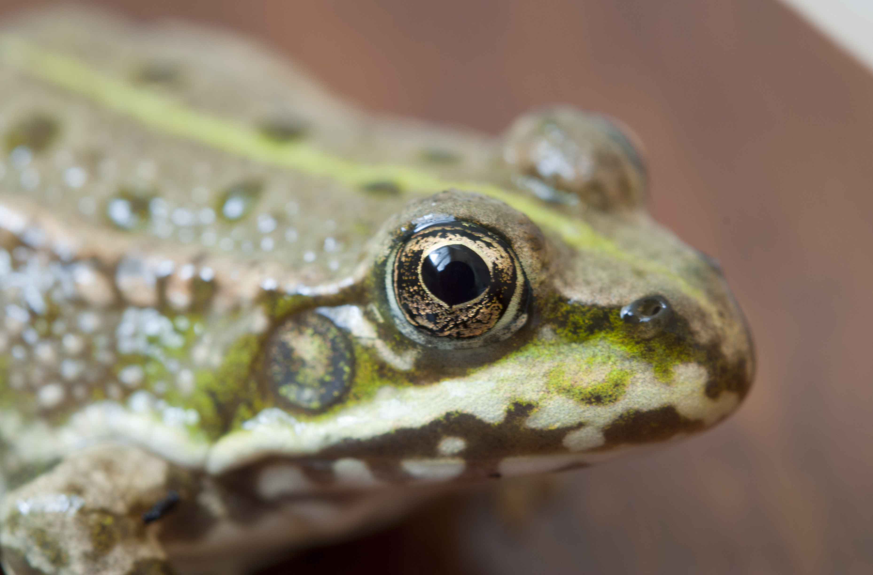 Pelophylax ridibundus (profile of head).